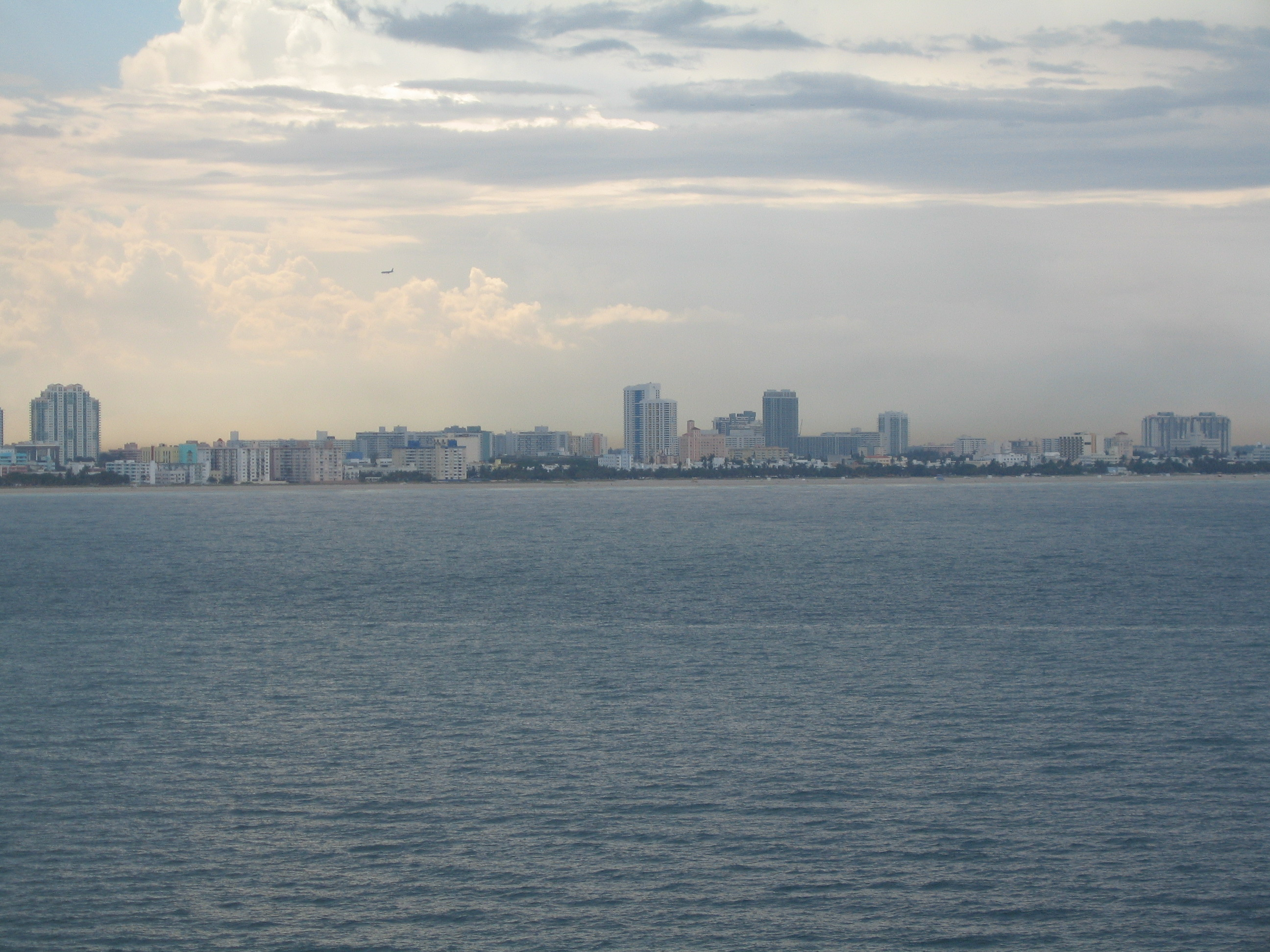 Miami Beach as viewed from the sea, June 2004. Taken from the deck of a cruise ship leaving port